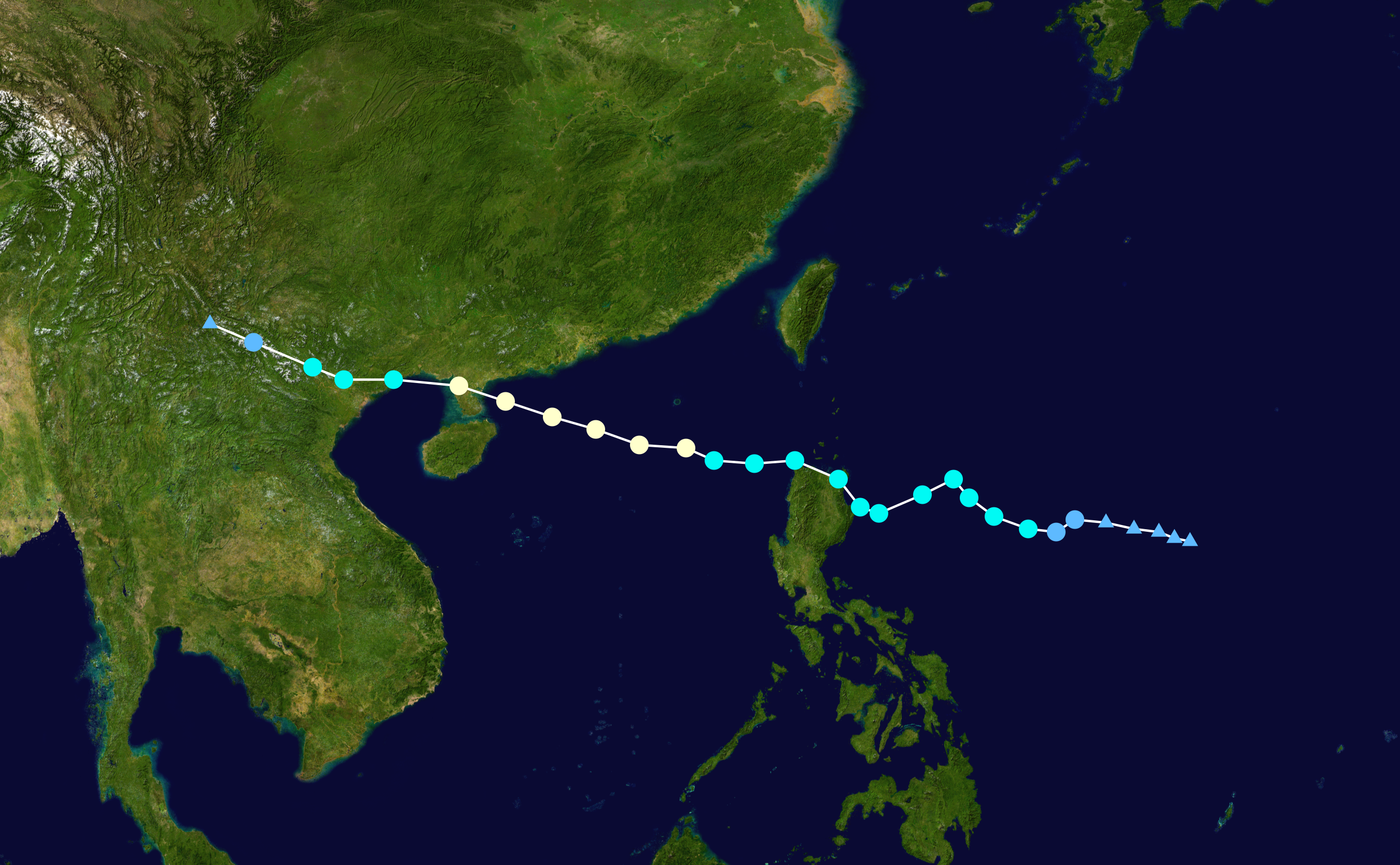 Track map of Typhoon Kai-tak of the 2012 Pacific typhoon season. The points show the location of the storm at 6-hour intervals. The colour represents the storm's maximum sustained wind speeds as classified in the Saffir–Simpson scale (see below), and the shape of the data points represent the nature of the storm, according to the legend below. Saffir–Simpson scale Tropical depression≤38 mph≤62 km/h Category 3111–129 mph178–208 km/h Tropical storm39–73 mph63–118 km/h Category 4130–156 mph209–251 km/h Category 174–95 mph119–153 km/h Category 5≥157 mph≥252 km/h Category 296–110 mph154–177 km/h Unknown Storm type Tropical cyclone Subtropical cyclone Extratropical cyclone / Remnant low / Tropical disturbance / Monsoon depression